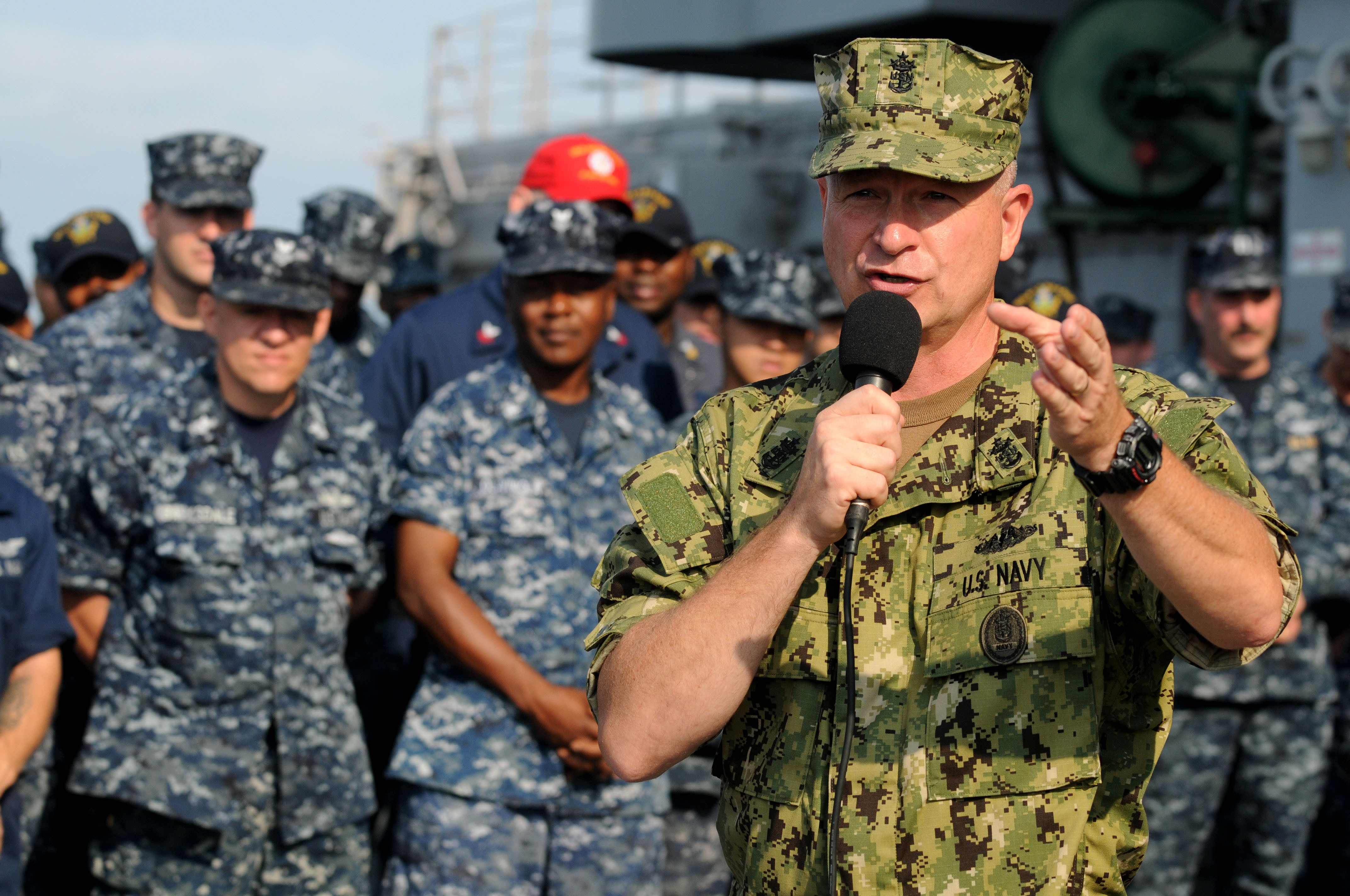 NORFOLK (Aug. 5, 2010) Master Chief Petty Officer of the Navy (MCPON) Rick West holds an all-hands call aboard the amphibious assault ship USS Kearsarge (LHD 3) during his visit to Naval Station Norfolk. West is wearing the Navy Working Uniform Type III during the conformance test phase. (U.S. Navy photo by Mass Communication Specialist 1st Class Jennifer A. Villalovos/Released)